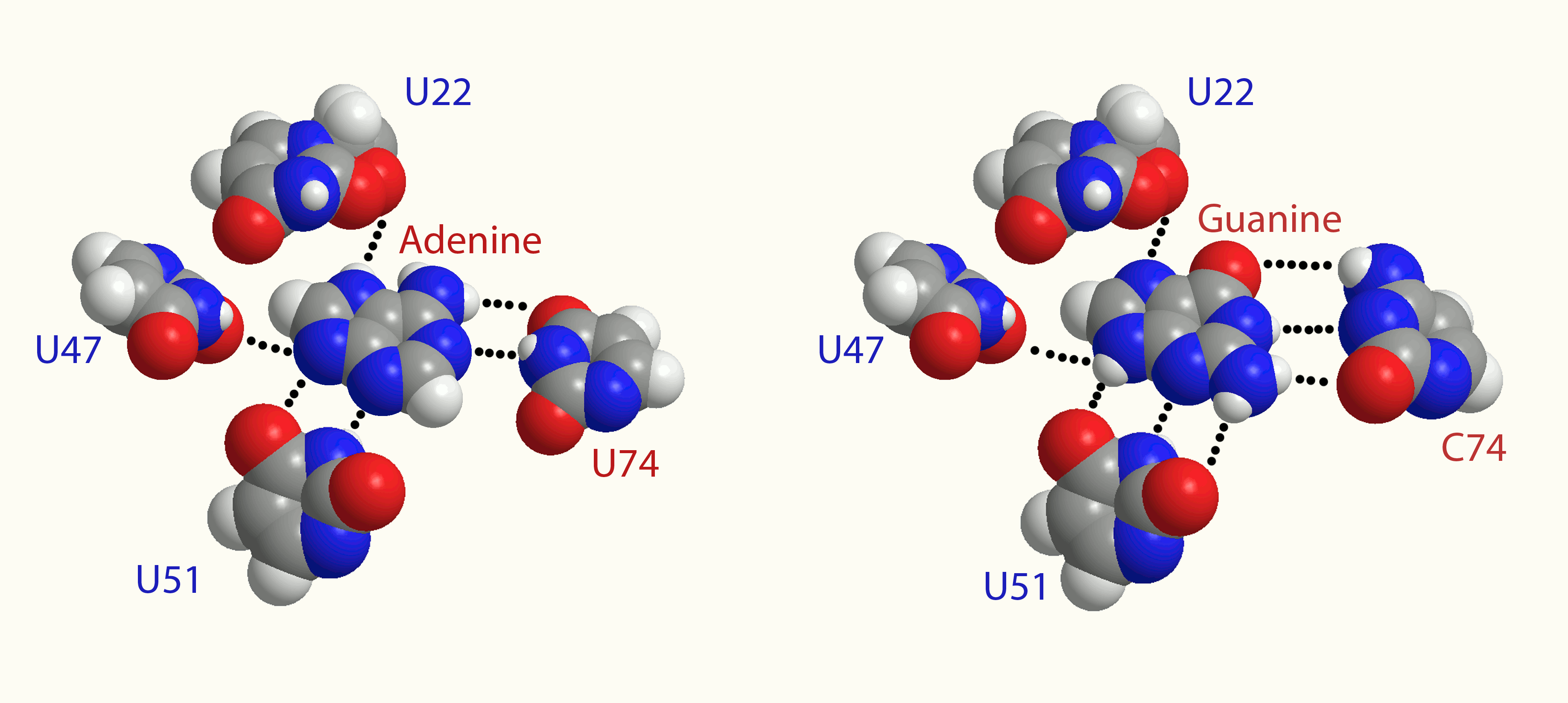 Space filling models showing the important binding-pocket interactions that occur when adenine-sensing riboswitch and guanine-sensing riboswitch associated with their respective ligands.